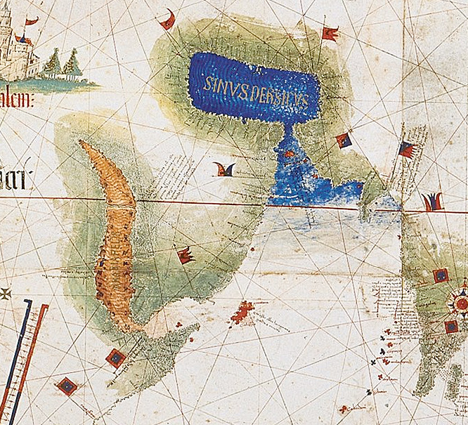 Enlarged detail showing Red Sea and Persian Gulf as viewed in 1502 in the Cantino World Map. Most important manuscript map surviving from the early Age of Discovery, the Cantino World Map is named for Alberto Cantino, an Italian diplomatic agent in Lisbon who obtained it in 1502 for the Duke of Ferrara. It incorporates extensive new geographical information based on four series of voyages: Columbus to the Caribbean, Pedro Álvarez Cabral to Brazil, Vasco de Gama followed by Cabral to eastern Africa and India, and the brothers Corte-Real to Greenland and Newfoundland. Except for Columbus, all had sailed under the Portuguese flag.